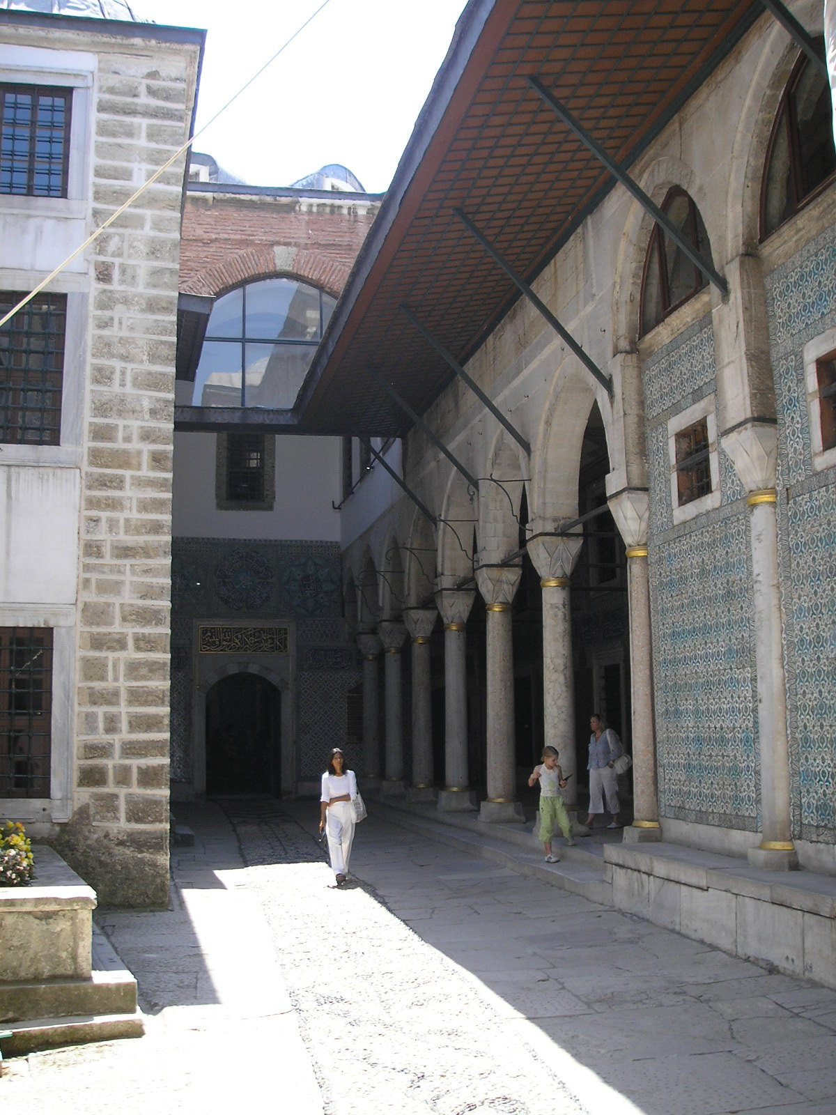 Courtyard of the Eunuchs in the Harem of Topkapi Palace in Istanbul.